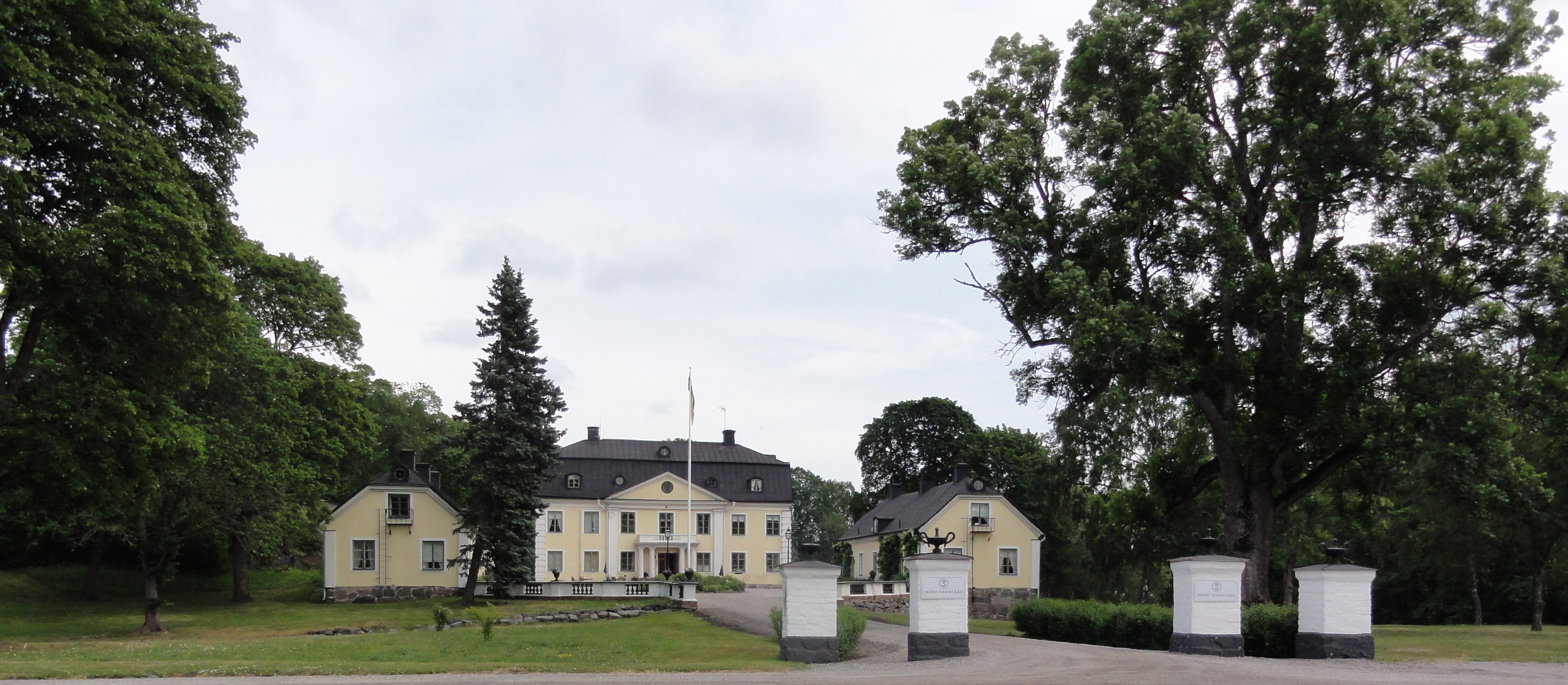 Ironwork Skebobruk in Uppland Sweden. One of the Vallonian ironworks Unknown